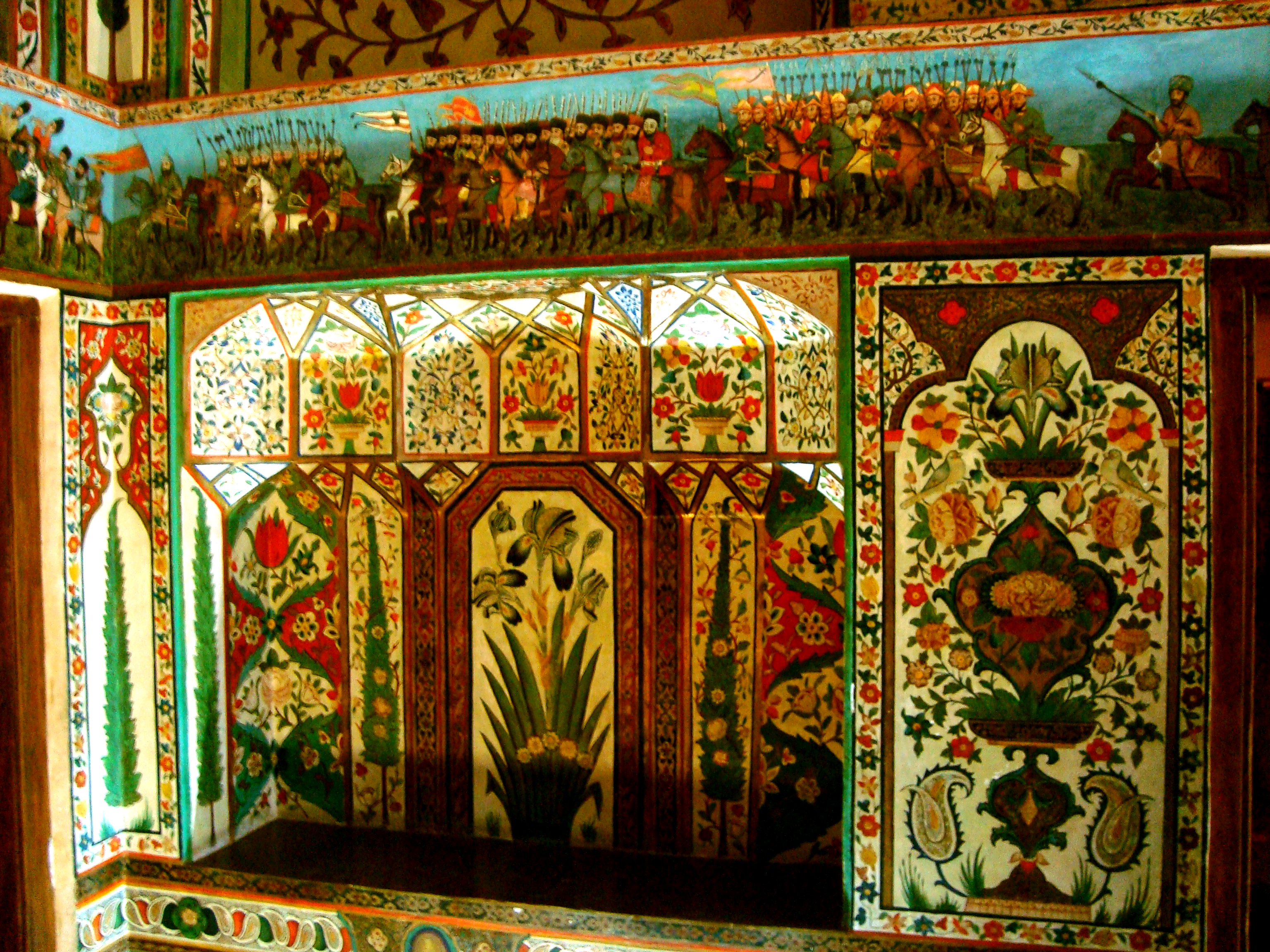 Shaki_khan_palace_image_Shaki_city_azerbaijan